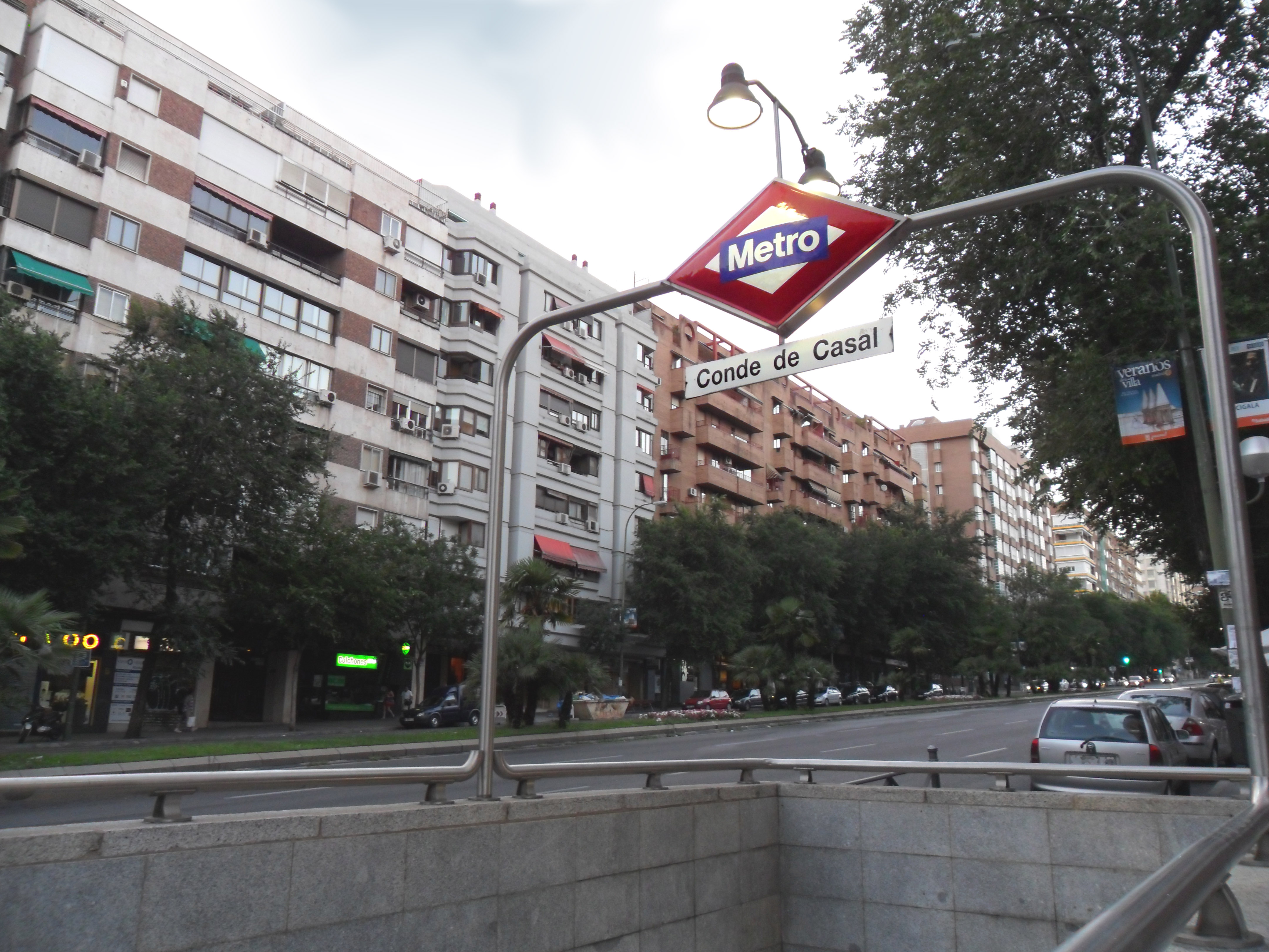 Entrance of Conde de Casal metro station in Madrid (Spain).